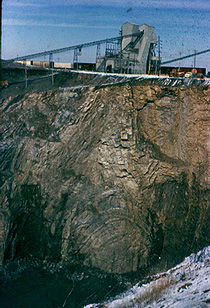 bedrock deformation resulting from a probable meteor impact at the Kentland crater near Kentland, Indiana